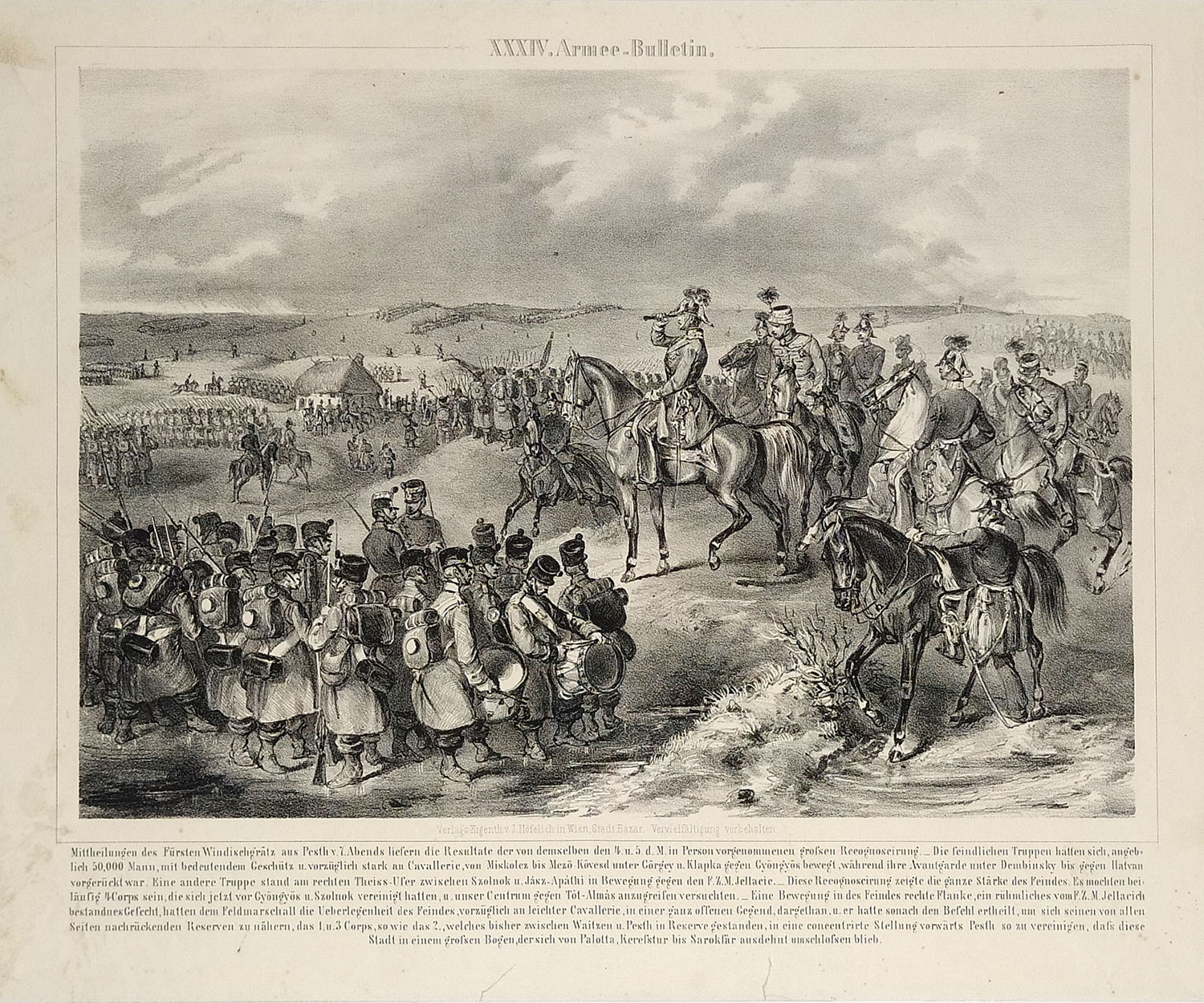 Alfred I, Prince of Windisch-Grätz observing the military situation during the Battle of Isaszeg, 06.04.1849